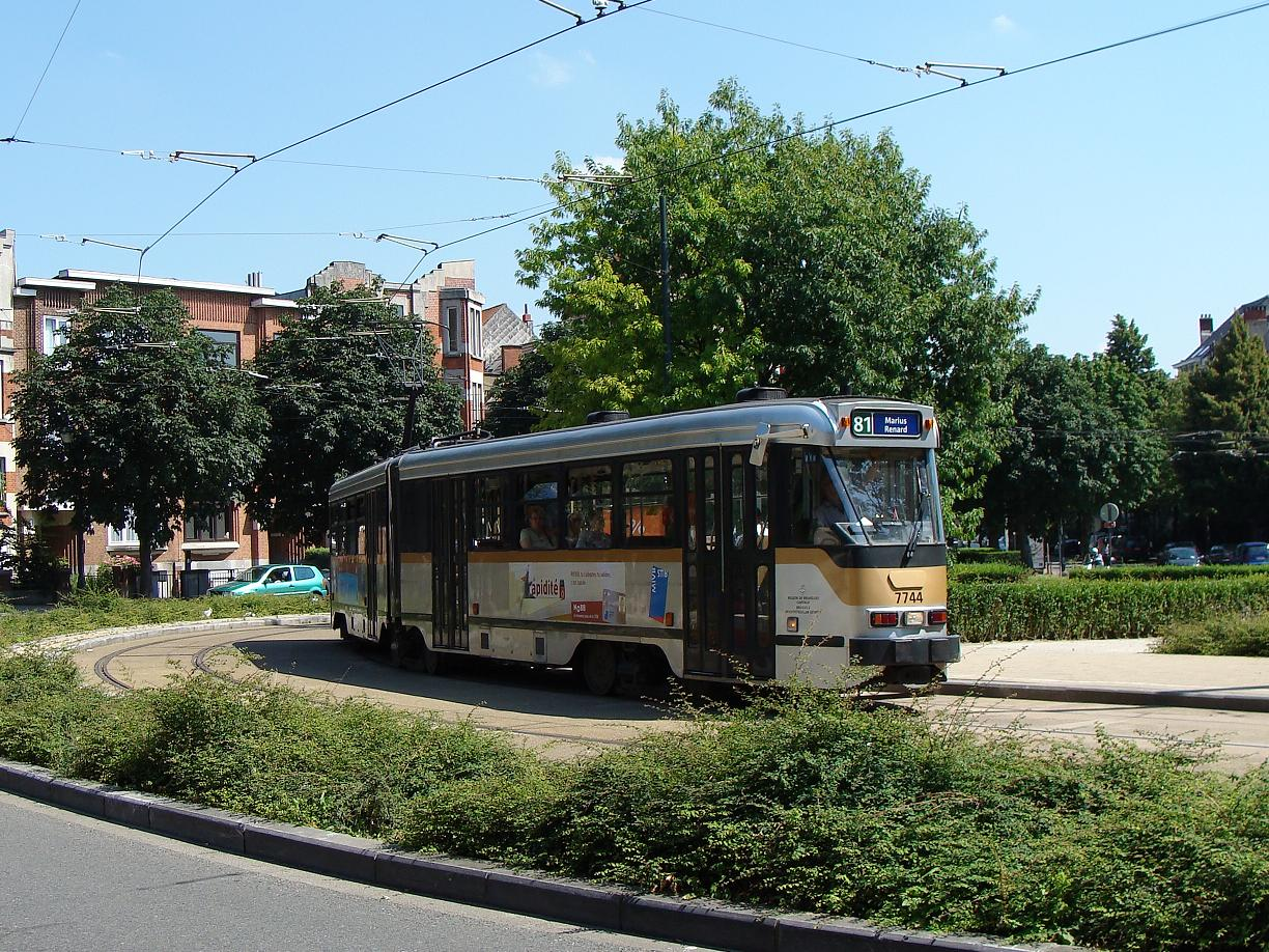 New route of the line 81 between South Station and Marius Renard.Before this route was served by the line 56 wish is today limited at the North Station.